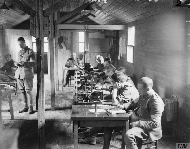 Signalmen using Morse code equipment in a Signal Exchange Station.